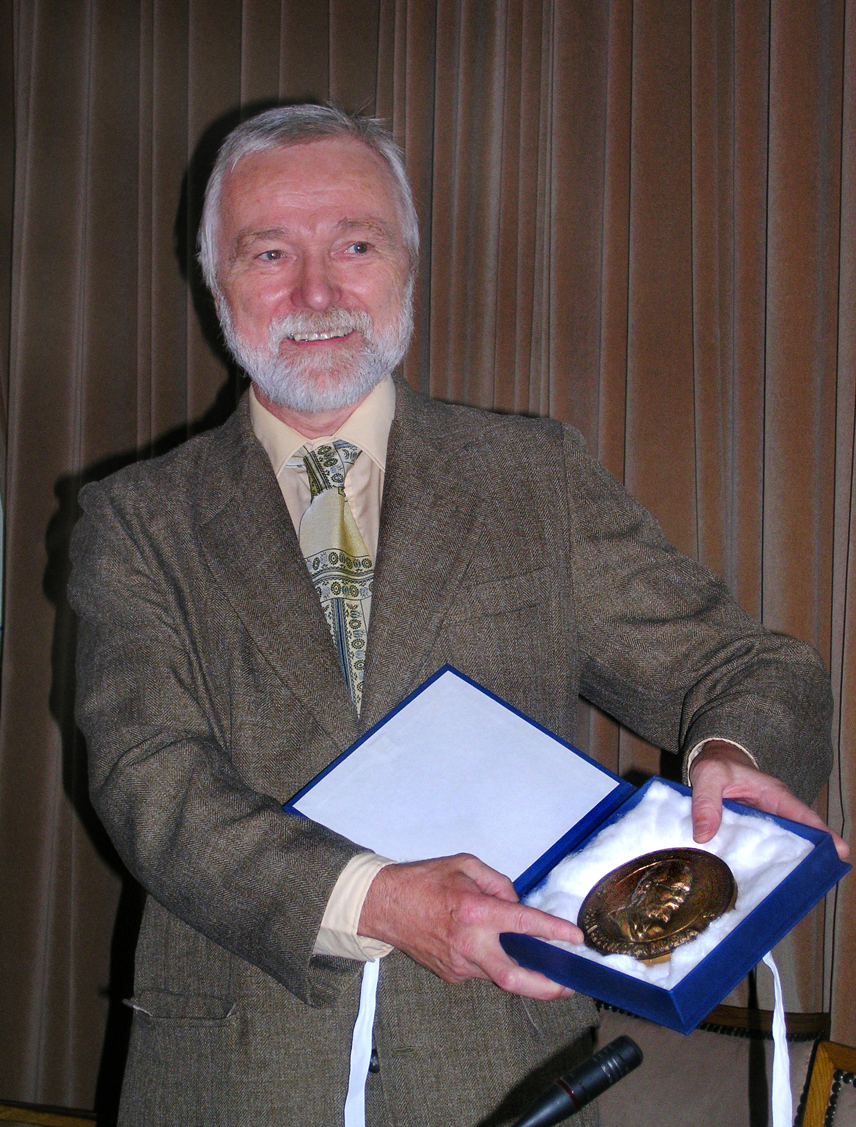 Ivan Hubený receiving the Nušl Prize of the Czech astronomical society